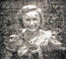 Milka Šobar-Nataša (1922-1943), Slovene partisan